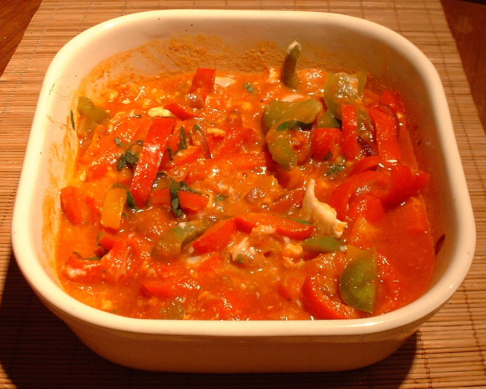 Pipérade - a Basque dish of onions, sweet pepppers and tomatoes cooked in olive oil